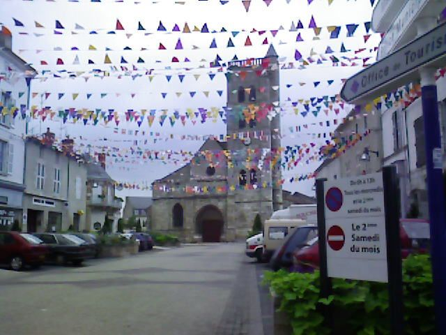 church